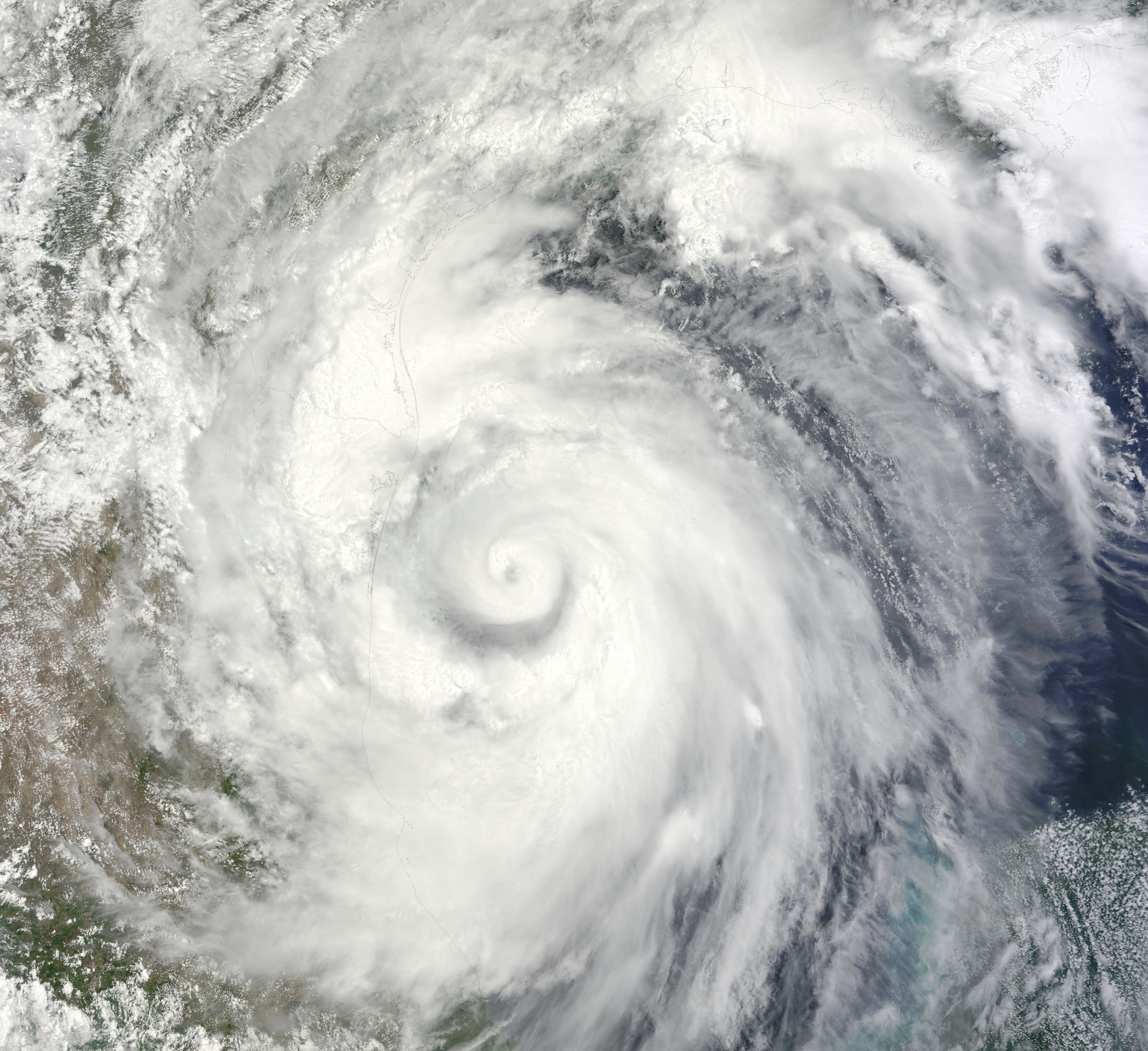 Hurricane Alex approaching Mexico and Texas.